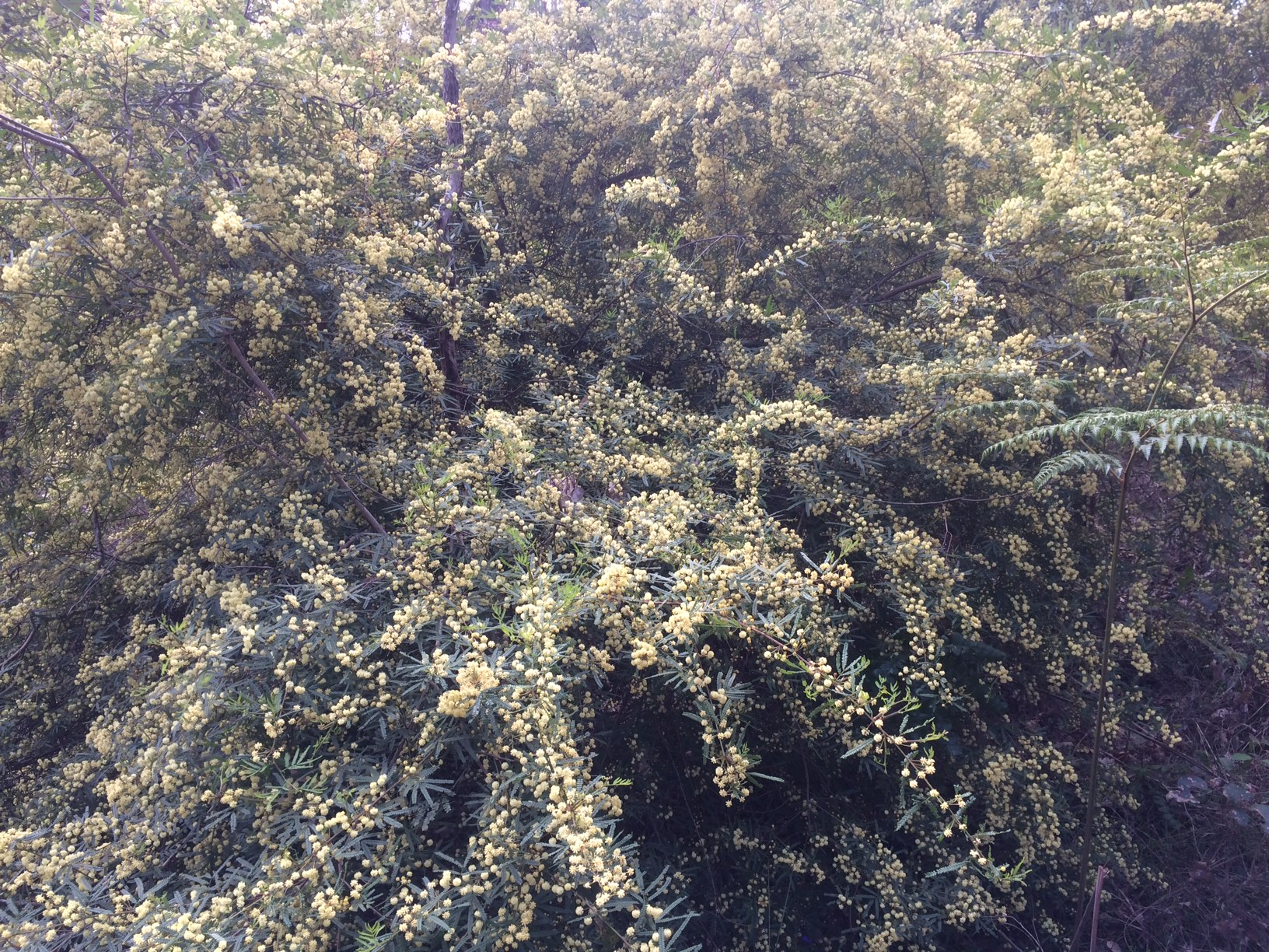 Acacia pentadenia near Pemberton